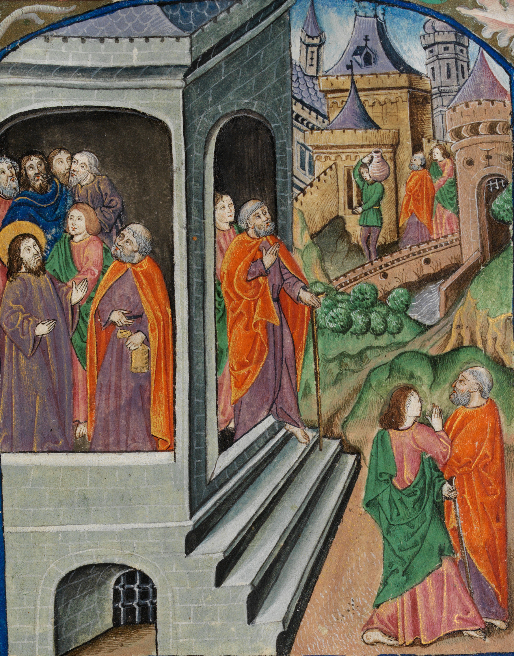 The two disciples, Peter and John, are sent to prepare the Passover